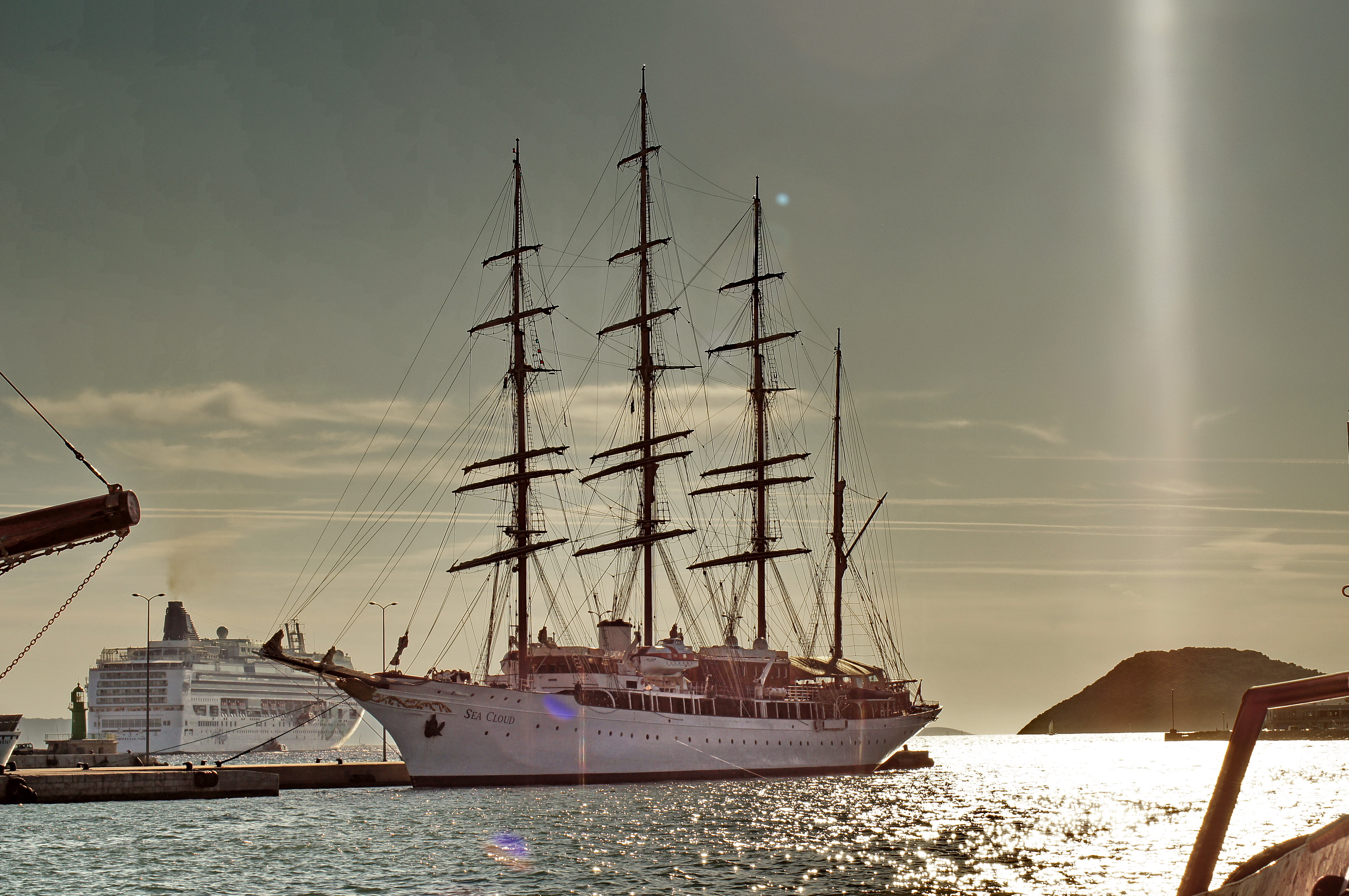 Sea Cloud (ship, 1931) IMO 8843446; in Split, on 2011-09-30